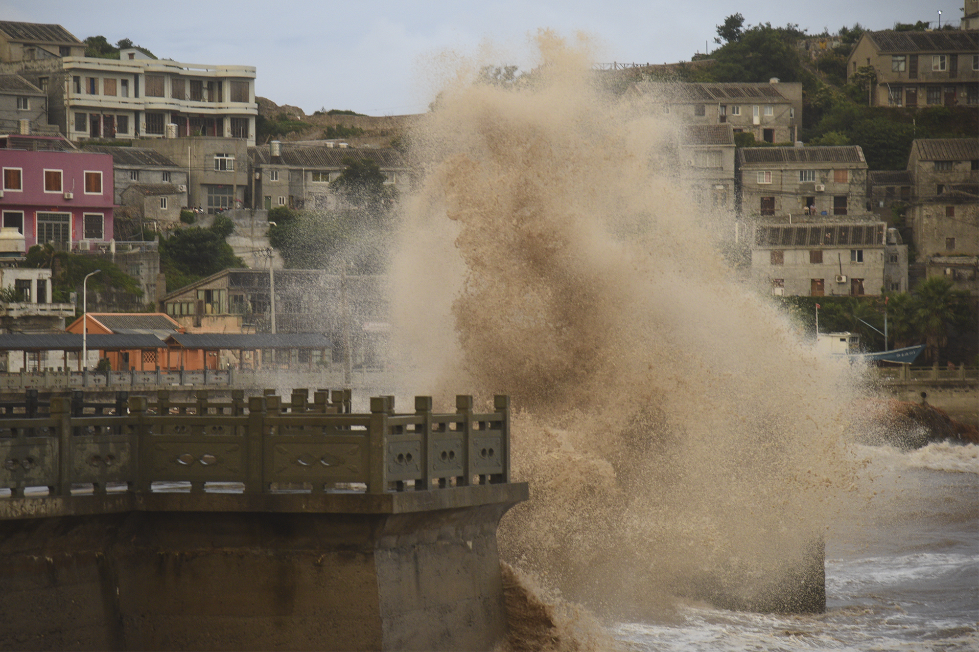 Typhoon Hagupit set off waves in Yuhuan, Zhejiang.